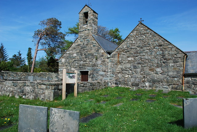 Eglwys Sant Madryn Trawsfynydd St Madryn's Church